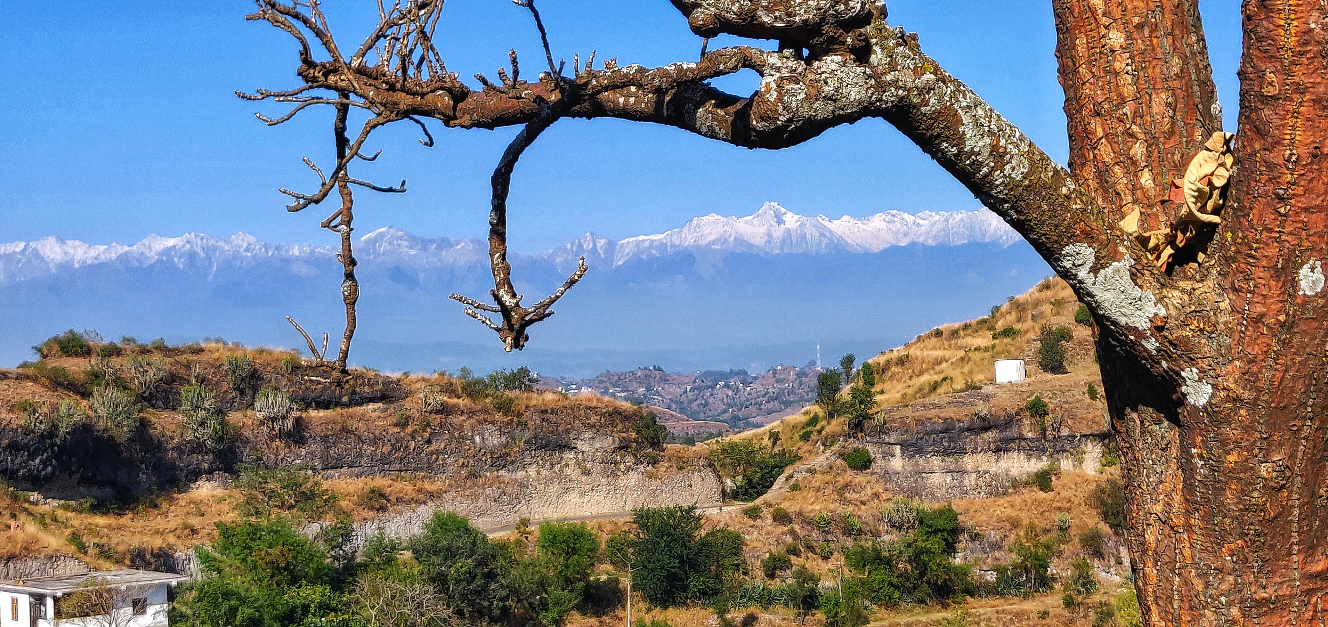 This photograph is taken at the top of a hill of Village Rangar situated in Hamirpur, Himachal Pradesh, India.